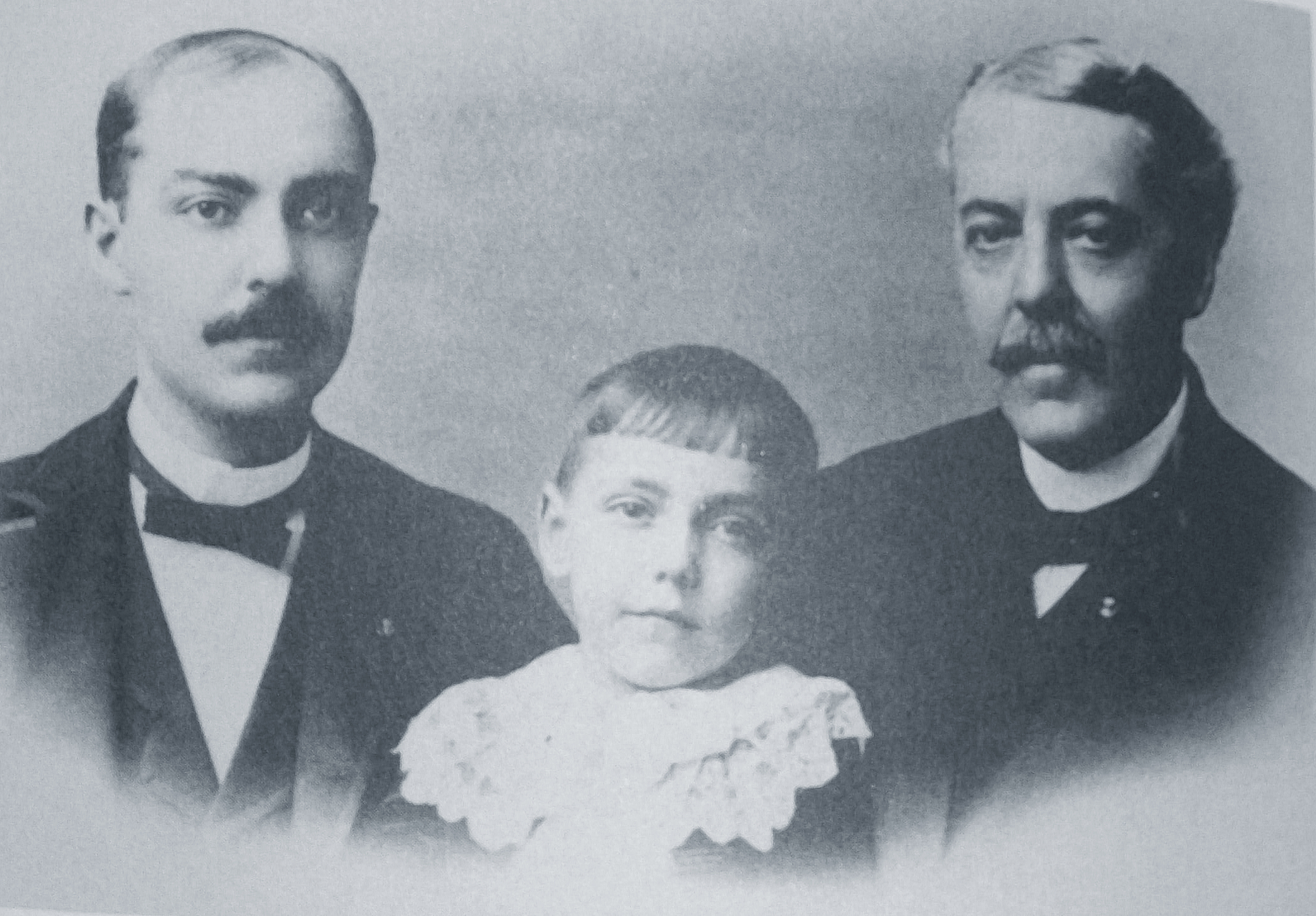 A photo of Colonel Eli Lilly, his son Josiah Kirby Lilly Sr., and grandson Eli Lilly Jr.